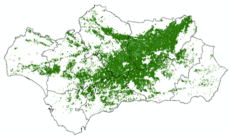 Olive crops in Andalusia (main worlwide productor of olive oil), Oteros (2014).